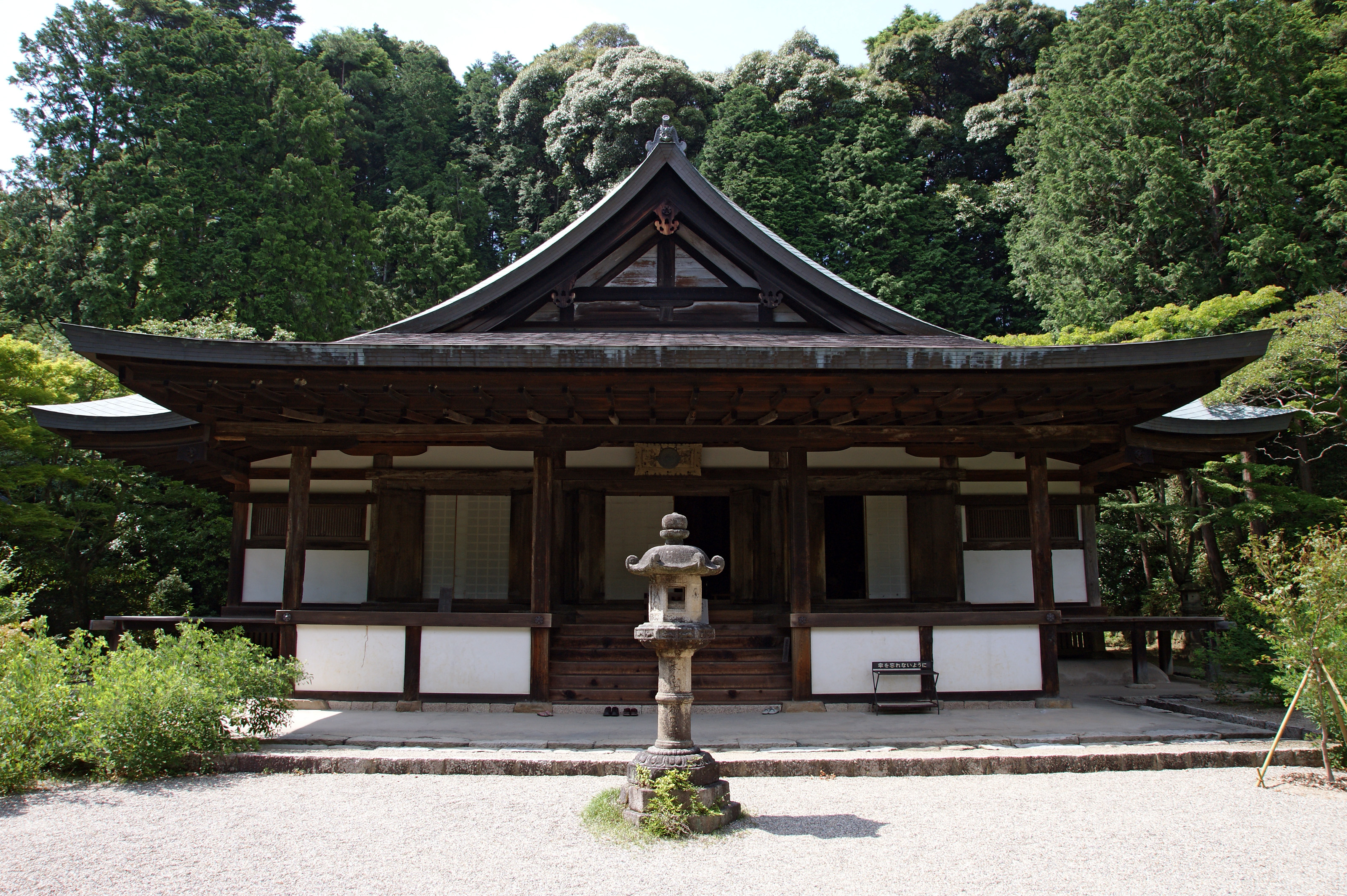 Enjoji in Nara, Nara prefecture, Japan